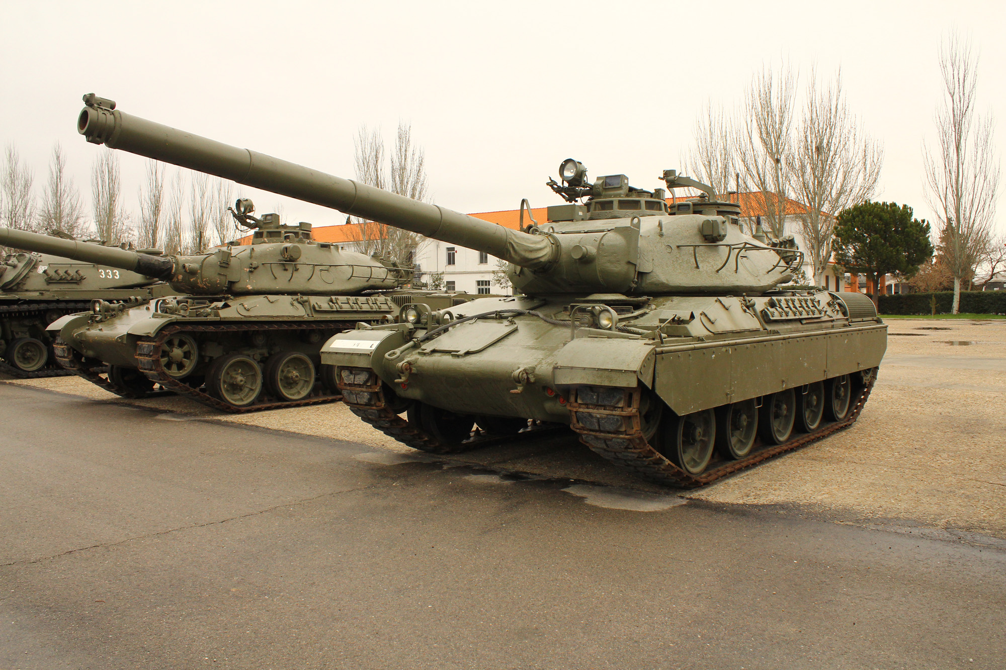 Tank AMX-30 with 105 mm cannon. In May 1970 the Spanish Army purchased 19 units of this French car to use in Sahara with a dessert scheme. Since 1974, 280 tanks were built in Spain under license being called AMX-30E. In 1988 began a process of modernization of 149 tanks to AMX-30ER1 version. It was the backbone of the Spanish Cavalry. In the early 1990s began to be replaced by M-60 tanks, and from 1994 began its final replacement by German Leopard II tanks and Italian armored vehicles B-1 Centauro for cavalry units. In the museum of El Goloso retains three of these tanks, one initial batch purchased from France (you can still see remnants of the original desert painting in his armor).